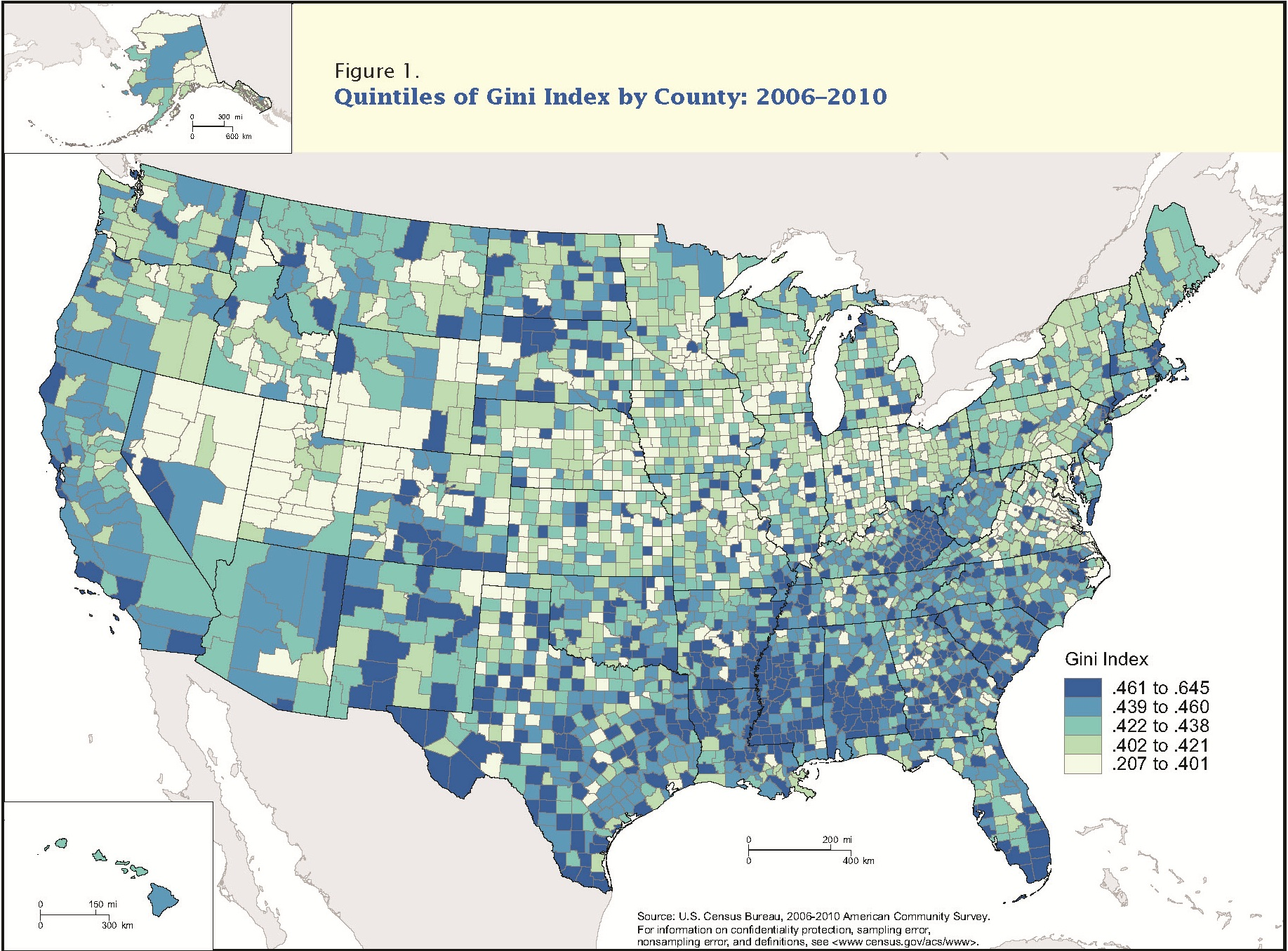 This map shows the Gini Index distribution by County for 2006-2010. According to US Census Bureau, the map illustrates each county’s level of income inequality, as measured by the Gini index. The 5-year 2006–2010 Gini index for the United States as a whole was 0.467. County-level Gini indexes ranged from 0.645 to 0.207. For the full report